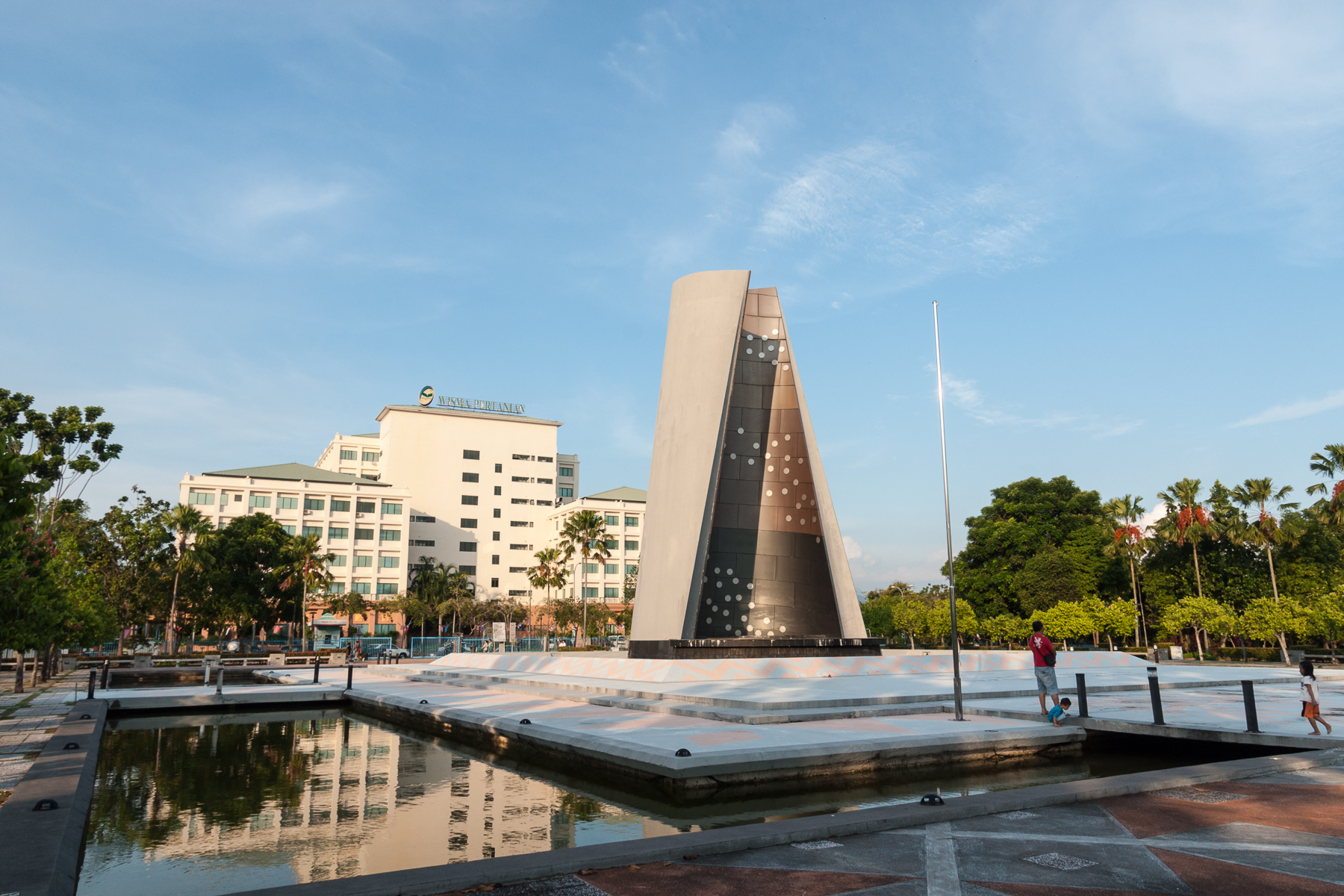 Kota Kinabalu, Sabah: Monument of the Heroes (Tugu Pahlawan). Dedicated to immortalize the warriors of the Sabah State. In the background Wisma Pertaman.